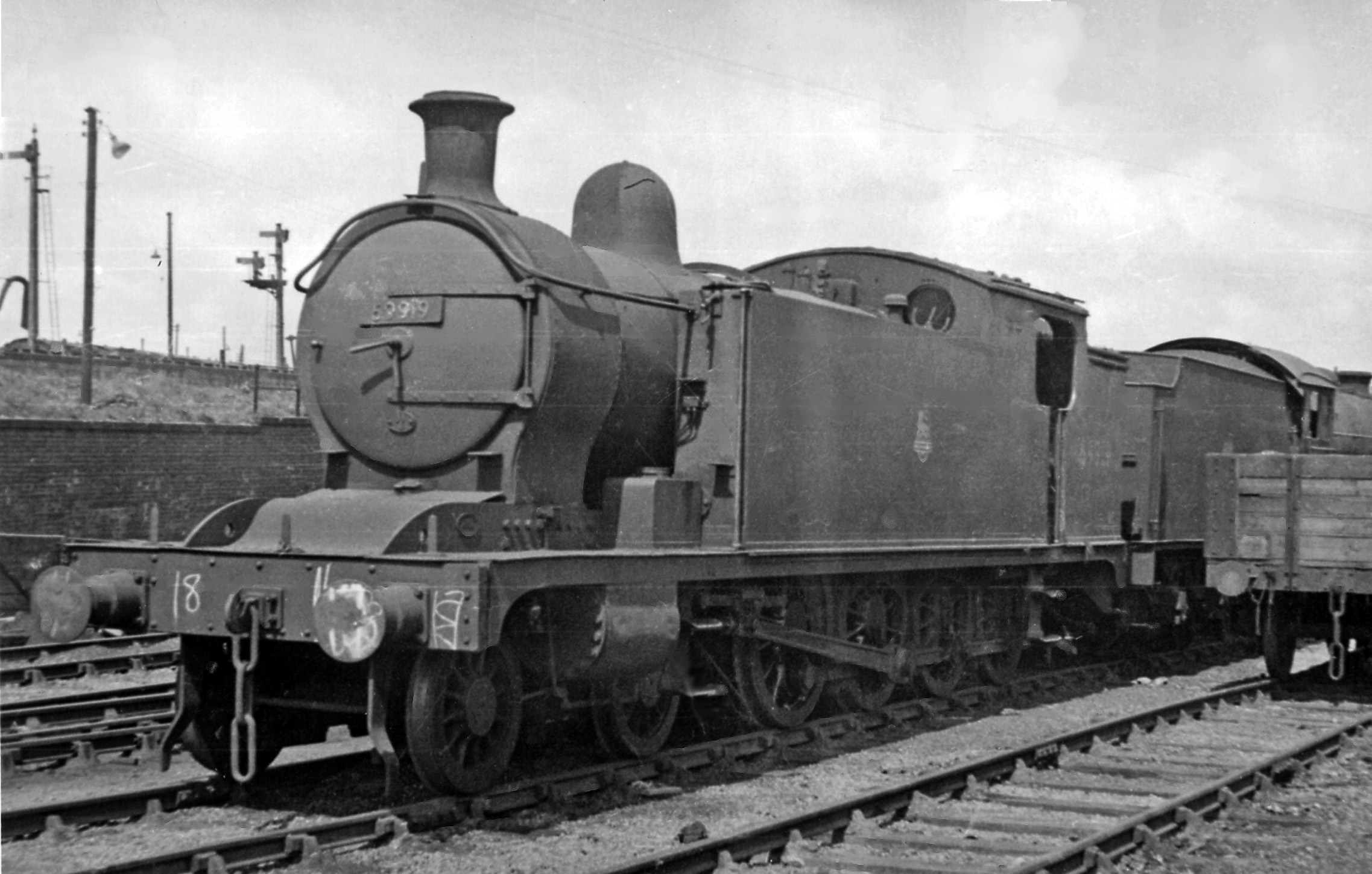 4-8-0T locomotive for hump shunting in Stockton Locomotive Yard. View NE; ex-North Eastern class X (LNER T1) 4-8-0T No. 69919 resting on a Sunday. (See also NZ4420 : Stockton Locomotive Depot).